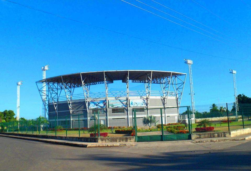 Basseball park